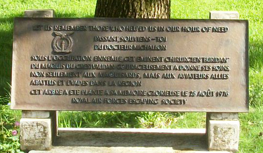 Memorial Albert Michallon in Grenoble, detail view